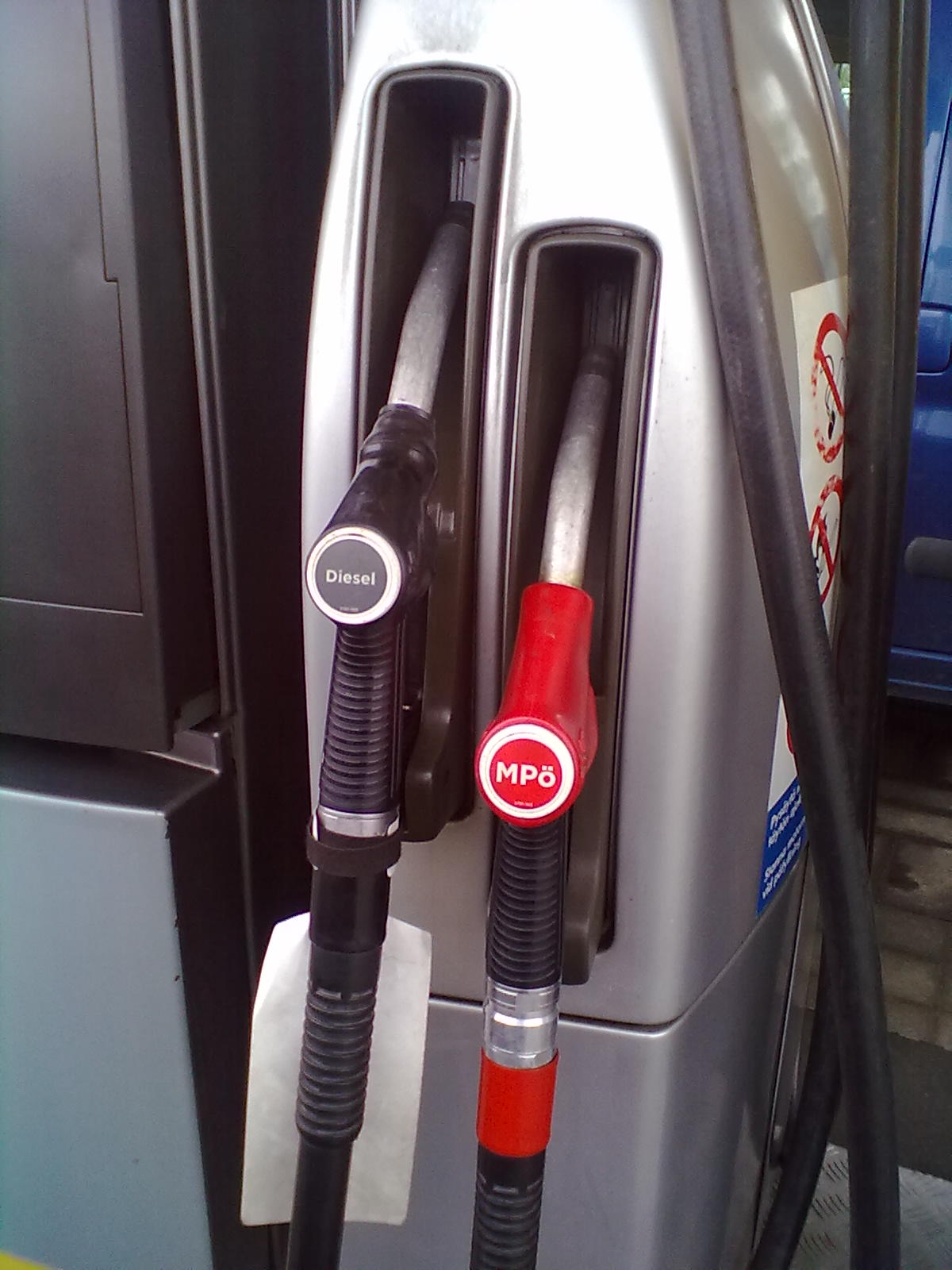 Diesel- and lowtax motoroil fuel pistols